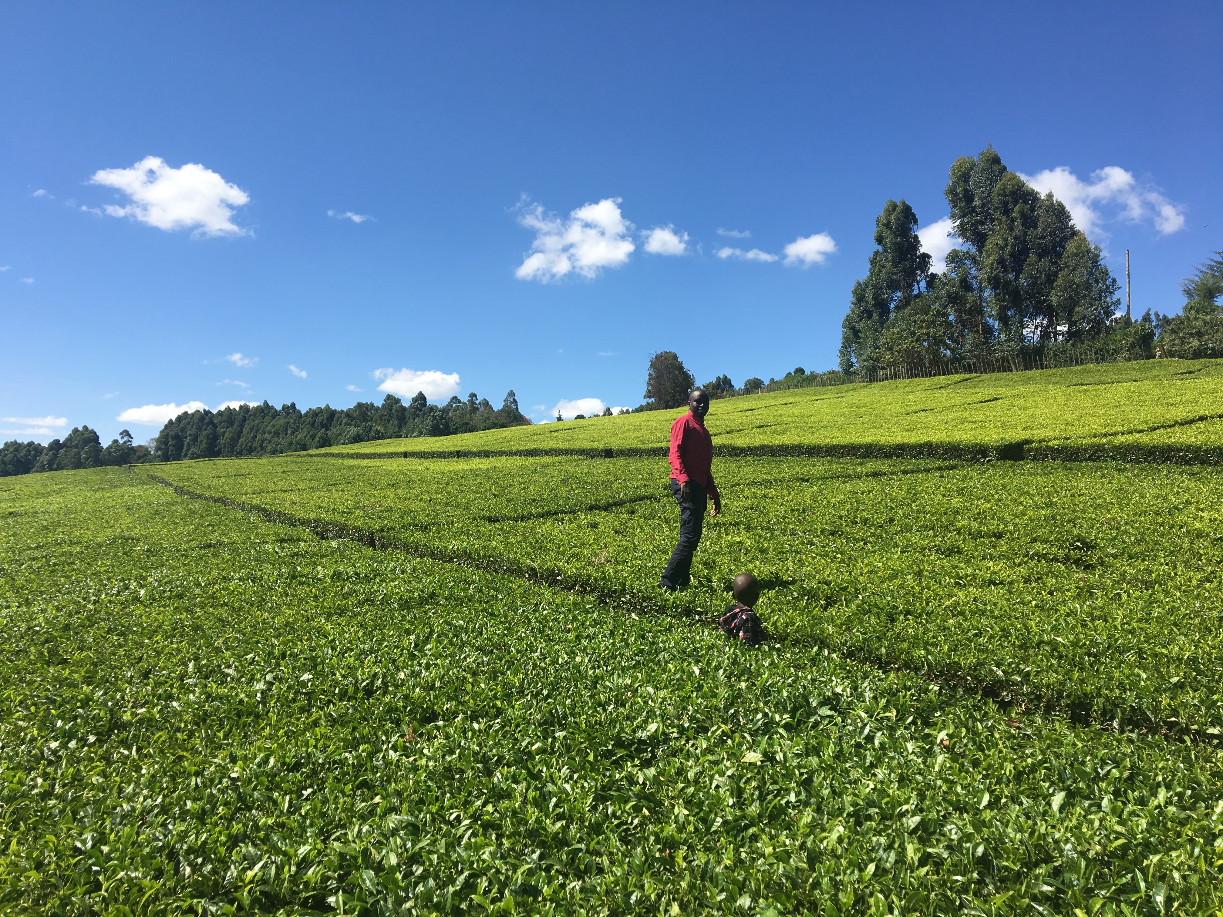 This is an image with the theme "Play" from: Kenya